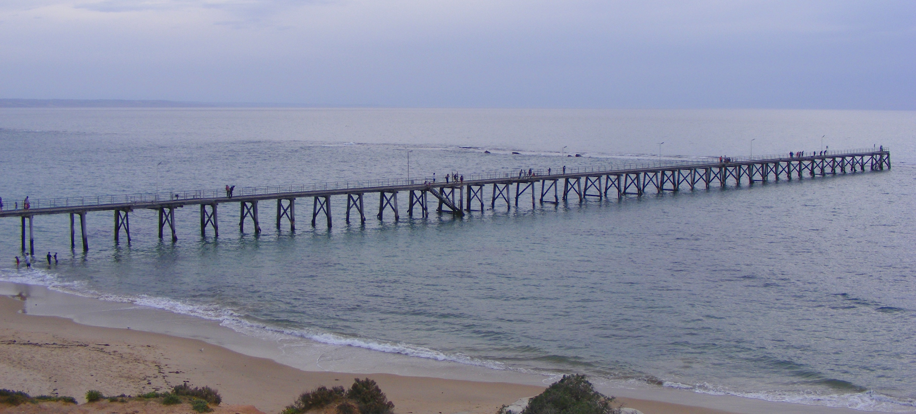 Port noarlunga Jetty, Adelaide, South Australia on an overcast day